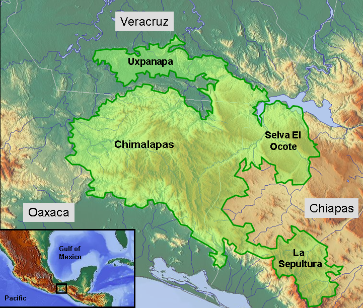 Selva Zoque, Mexico, an ecologically sensitive forest region.